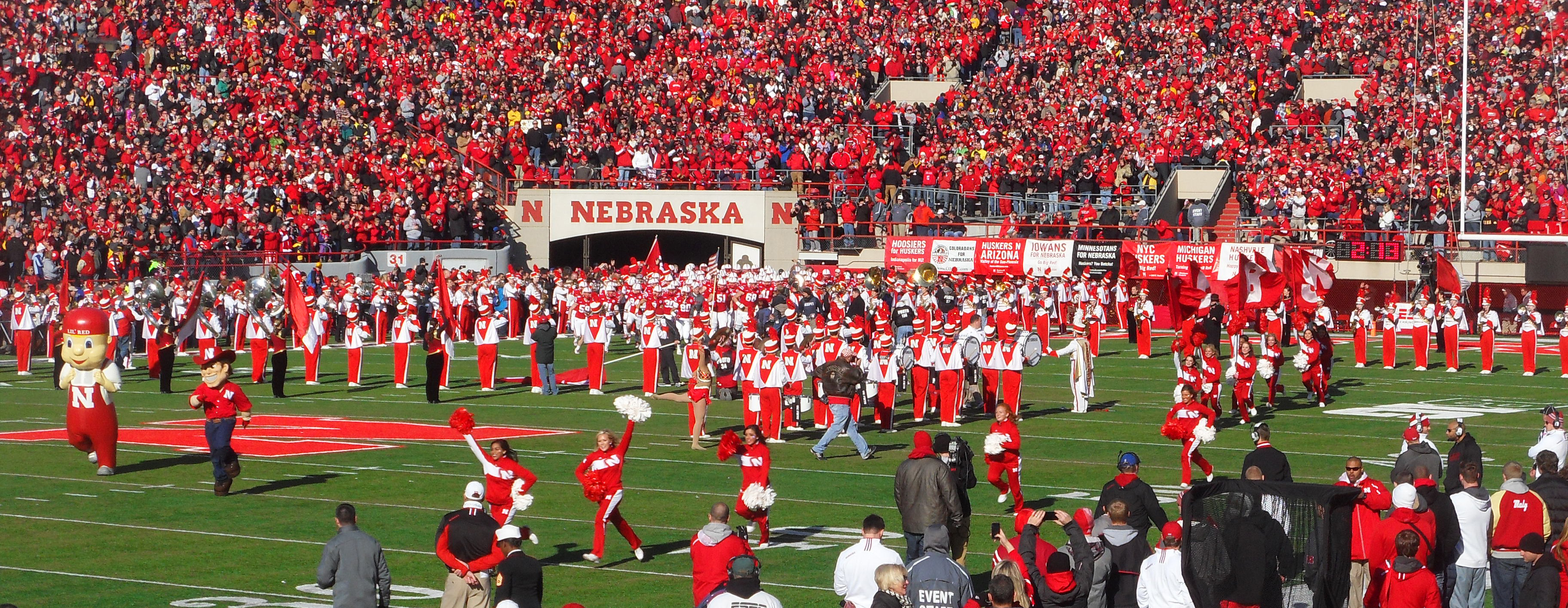 Nebraska's Tunnel Walk against Iowa.